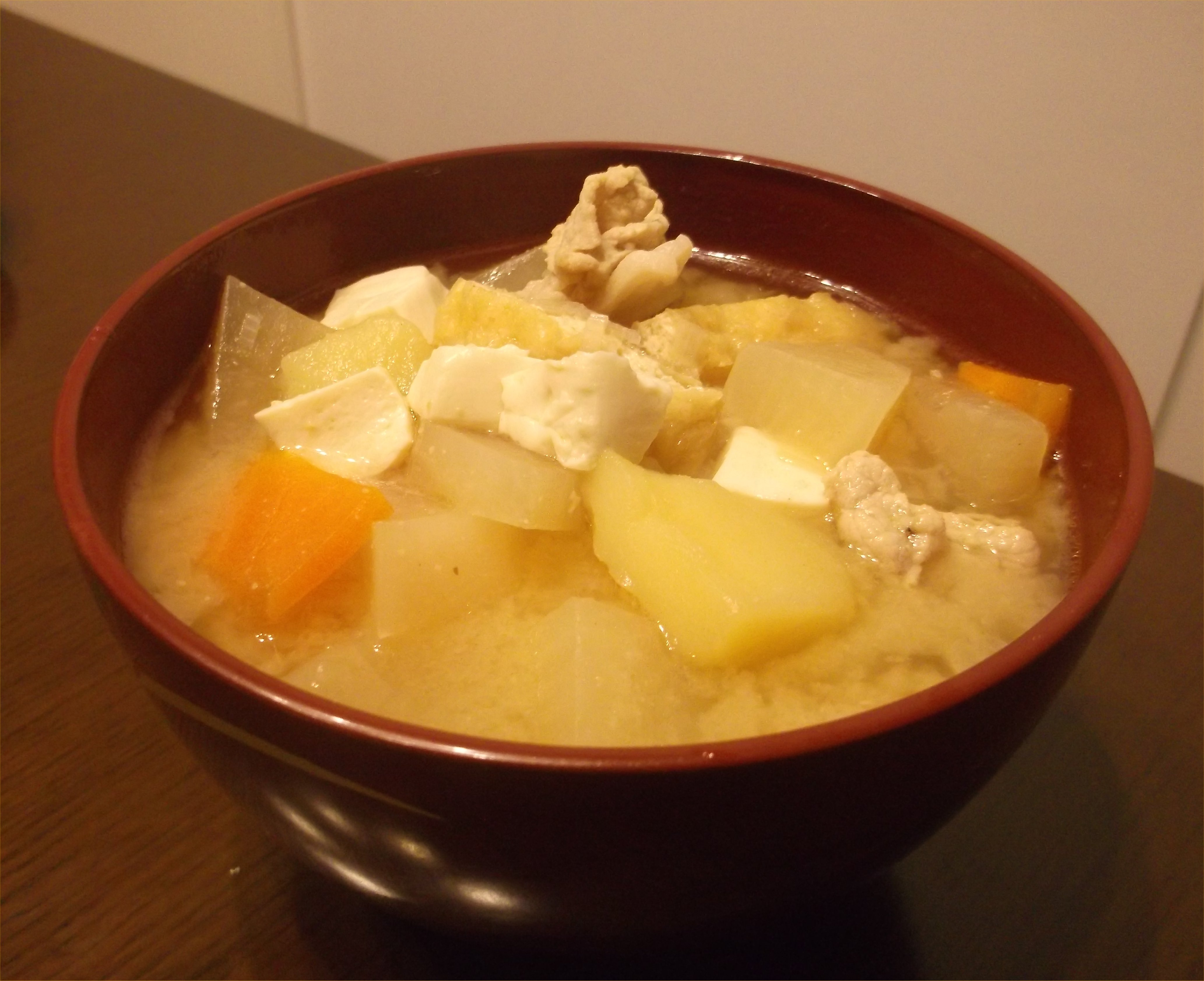 A photo of "Tonjiru"(a kind of Japanese soup.)